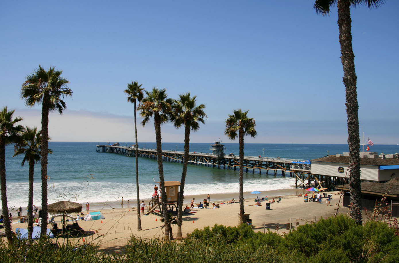 San Clemente Pier in San Clemente, California as seen from Parque del Mar.